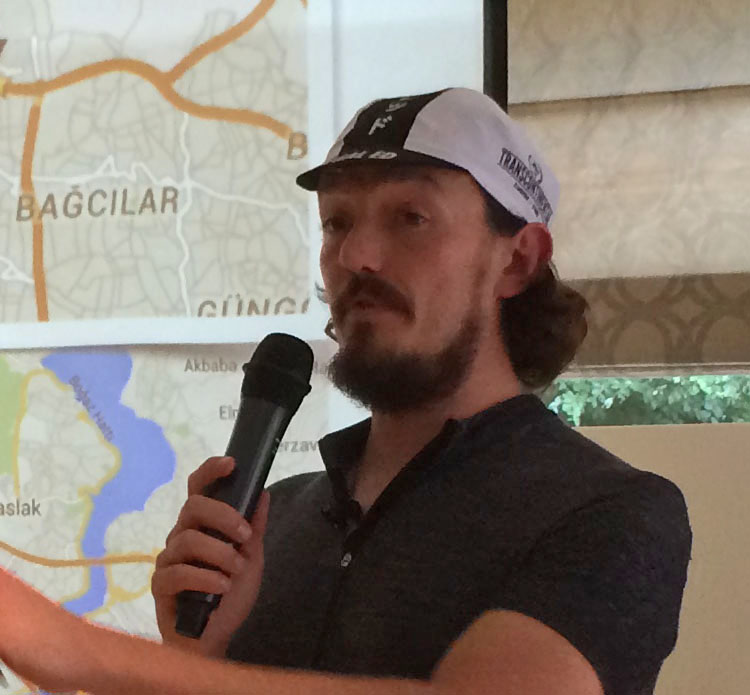 Mike Hall at the Riders Briefing before the 2015 Transcontinental Race in Geraardsbergen, Belgium